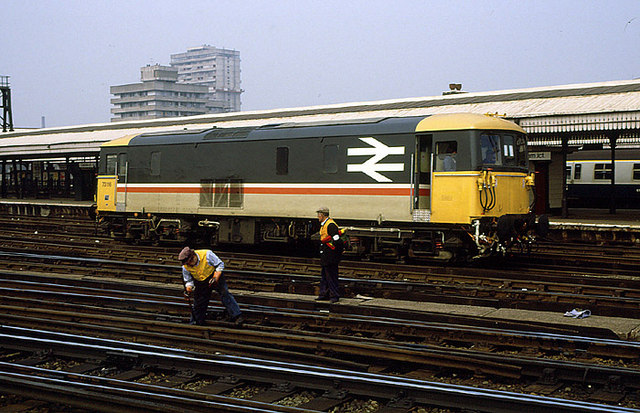 Maintaining the Railway A member of the permanent way staff checks the rails while his lookout man keeps a sharp eye out for trains. Behind, 73116 waits in the carriage sidings. It has recently received a repaint following overhaul.